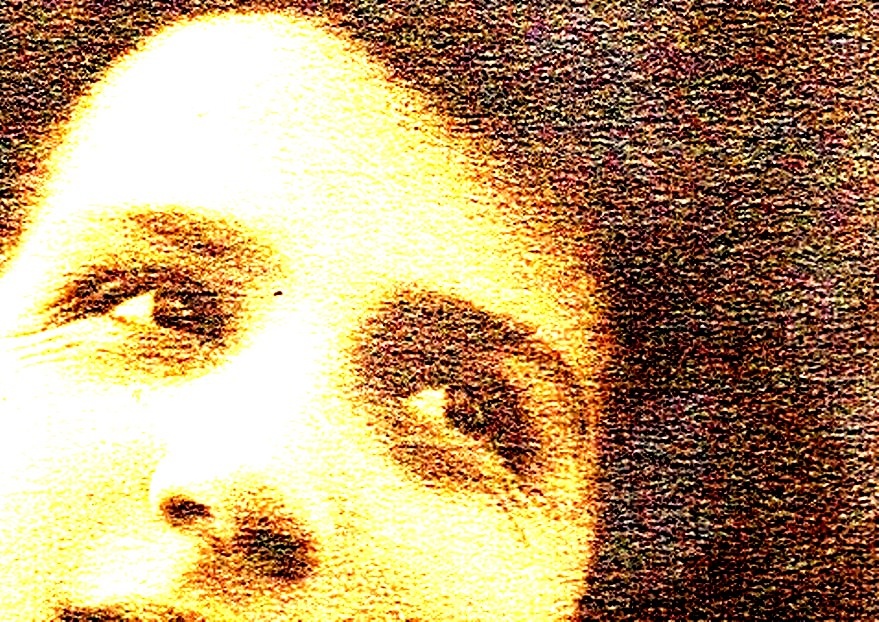 Paola Pezzaglia, 1921.